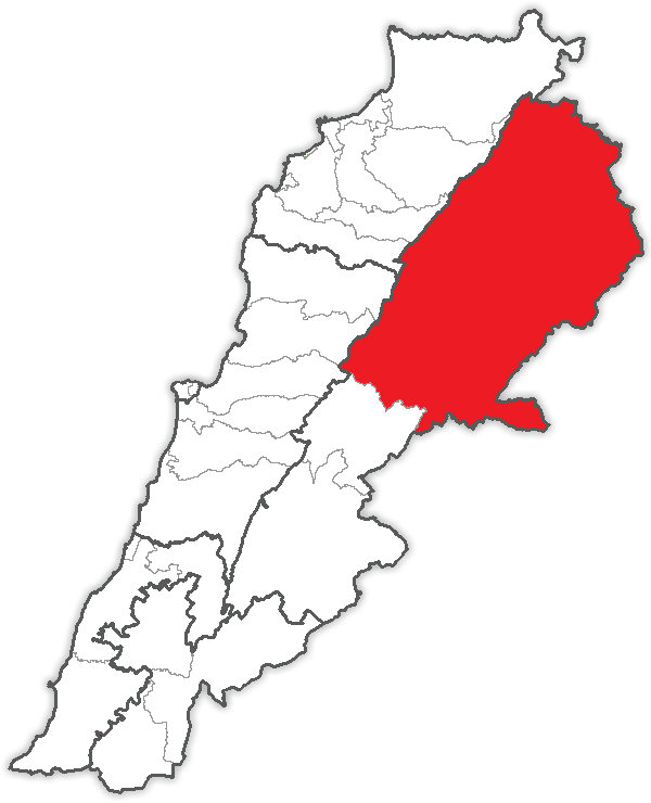 electoral district (2017 Election Law)